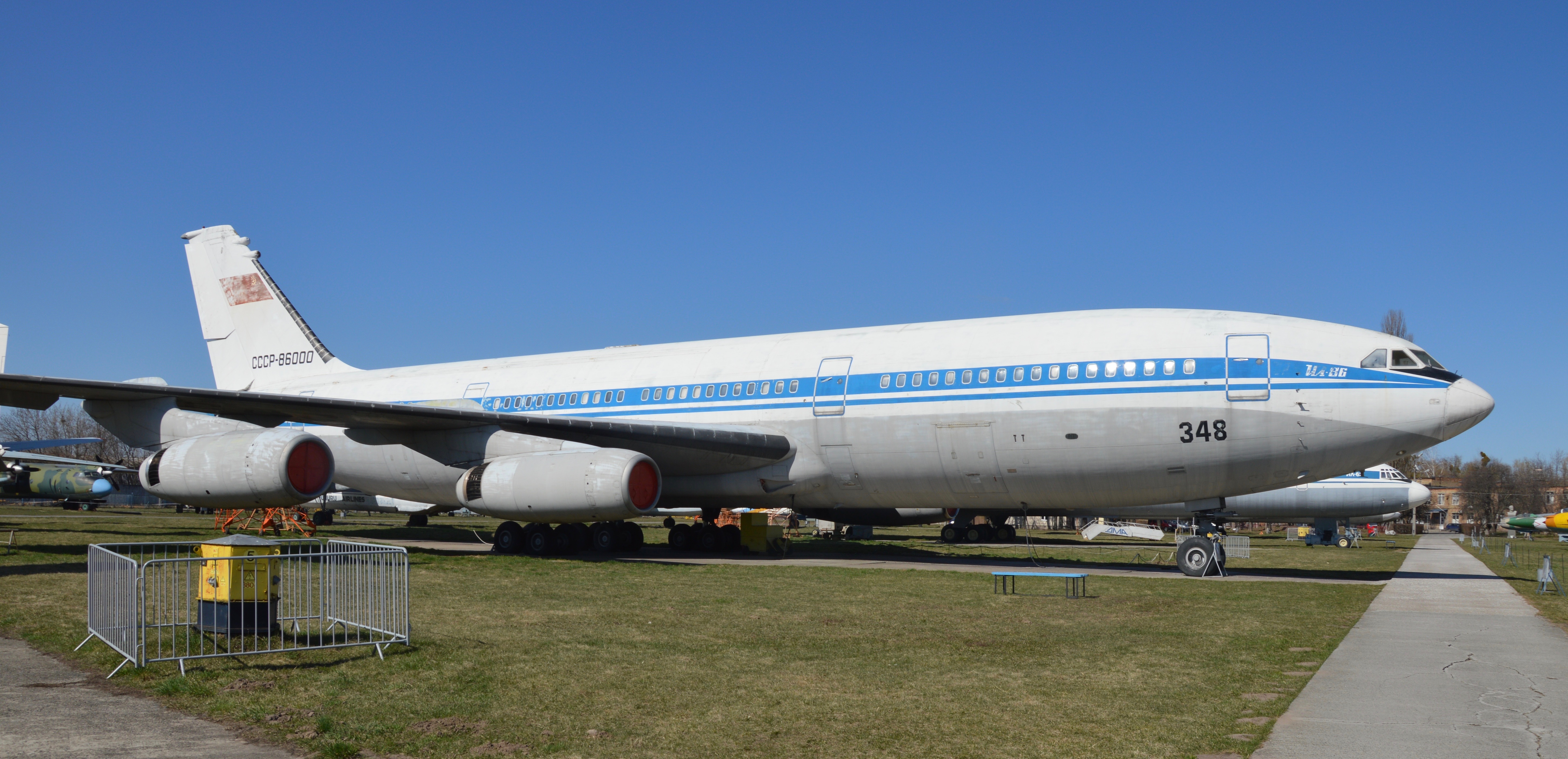 First prototype of Ilyushin Il-86 airliner (reg. CCCP-86000) on display at Ukrainian State Aviation Museum, Kiyv